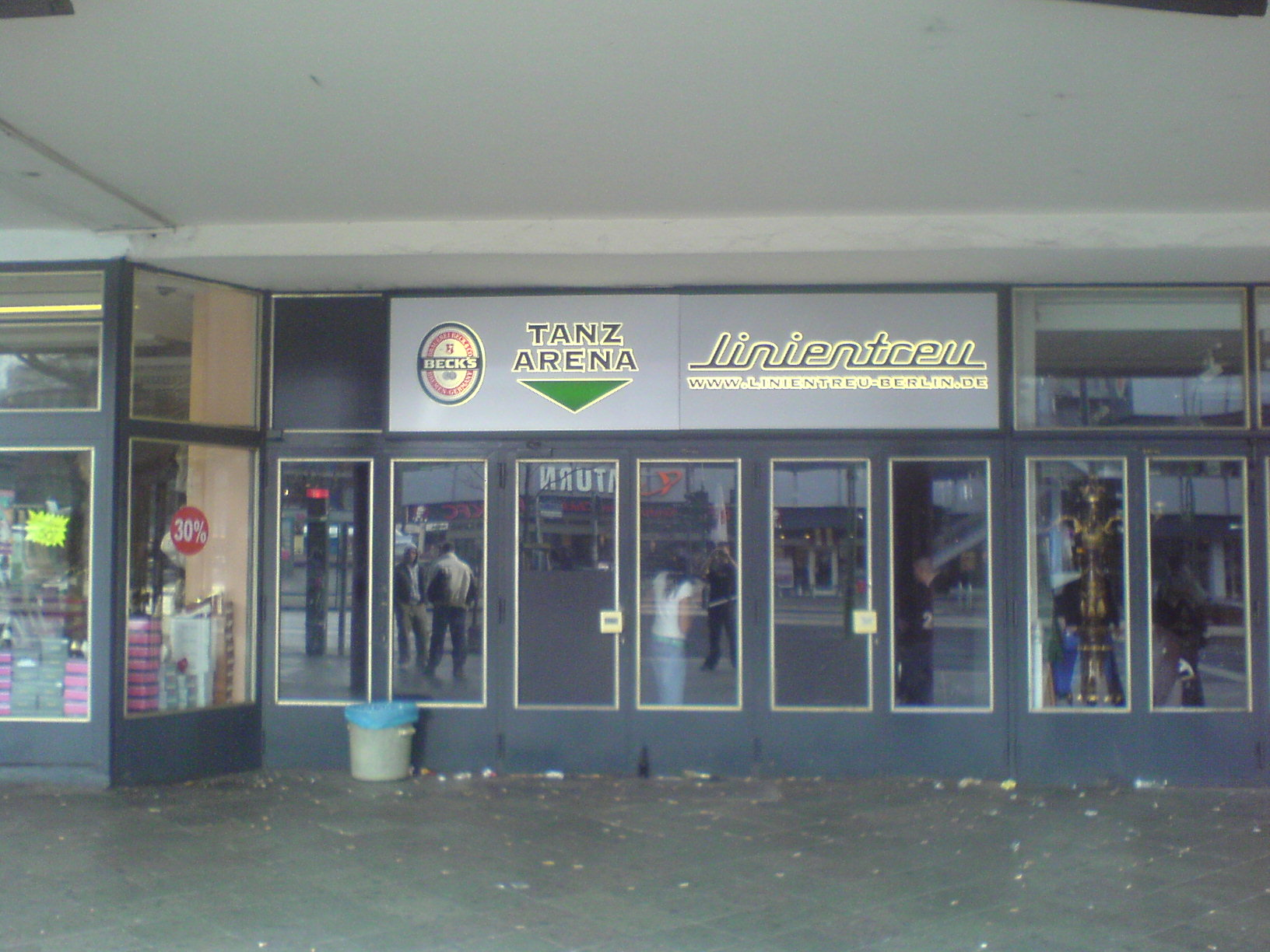 Entrace of the Linientreu, a former Techno-Club in Berlin